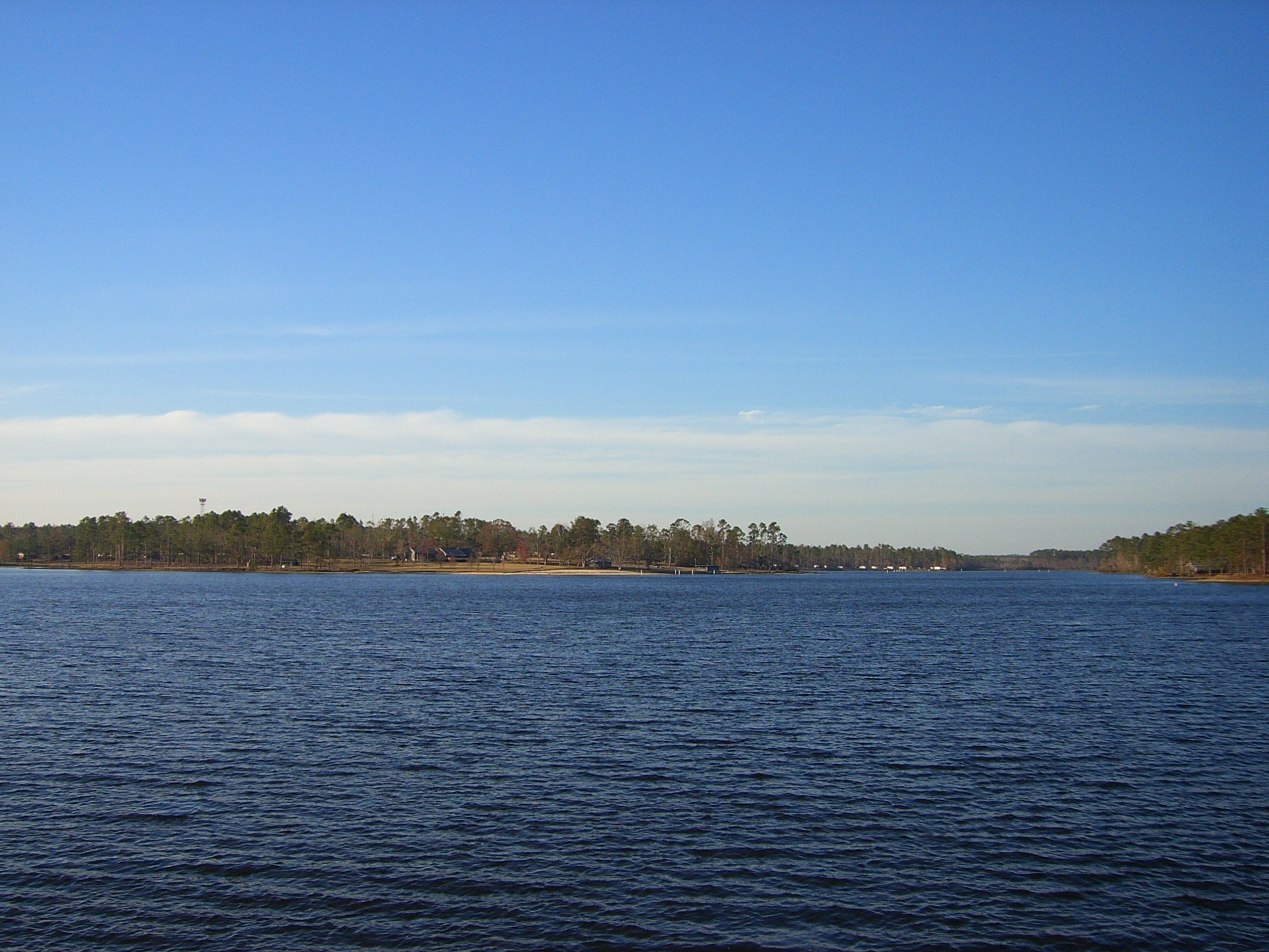 A view of Paul B. Johnson State Park south of Hattiesburg.